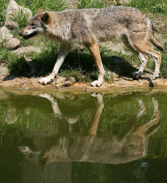 Eurasischer Wolf (Canis lupus). Taken a few years back whilst in Eldagsen/ Wisentgehege